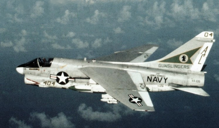 A U.S. Navy Ling-Temco-Vought A-7E-16-CV Corsair II (BuNo 159291) from Attack Squadron VA-105 Gunslingers in flight. VA-105 was assigned to Carrier Air Wing 3 (CVW-3) aboard the aircraft carrier USS John F. Kennedy (CV-67) for a deployment to the Mediterranean Sea from 4 January to 14 July 1982. The A-7E 159291 is today on display on deck of USS Yorktown (CVS-10) at the Patriots Point Naval and Maritime Museum, South Carolina (USA).